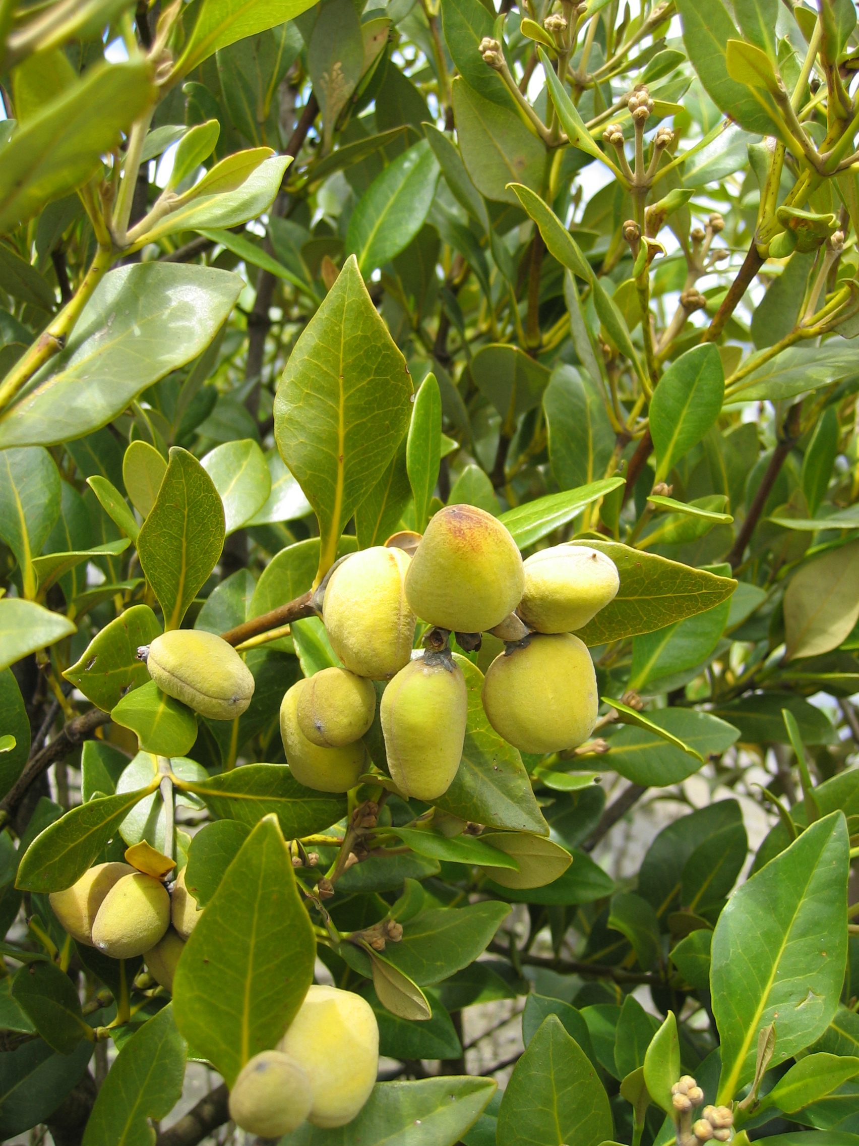 Avicennia resinifera, fruits, Coromandel 2005